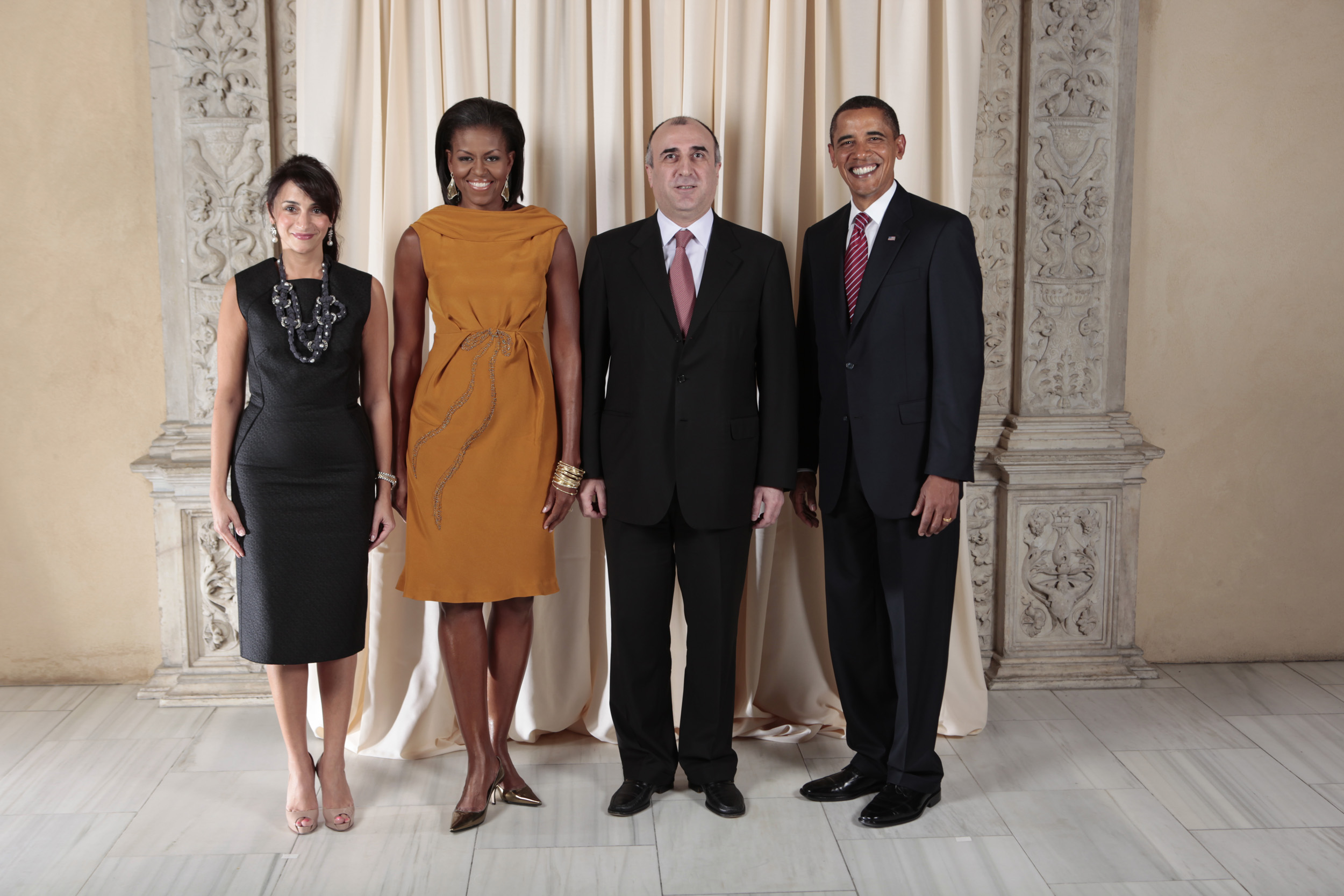 President Barack Obama and First Lady Michelle Obama pose for a photo during a reception at the Metropolitan Museum in New York with Elmar Mammadyarov, Minister of Foreign Affairs of the Republic of Azerbaijan, and his wife Mrs. Kamilla Mammadyarova.